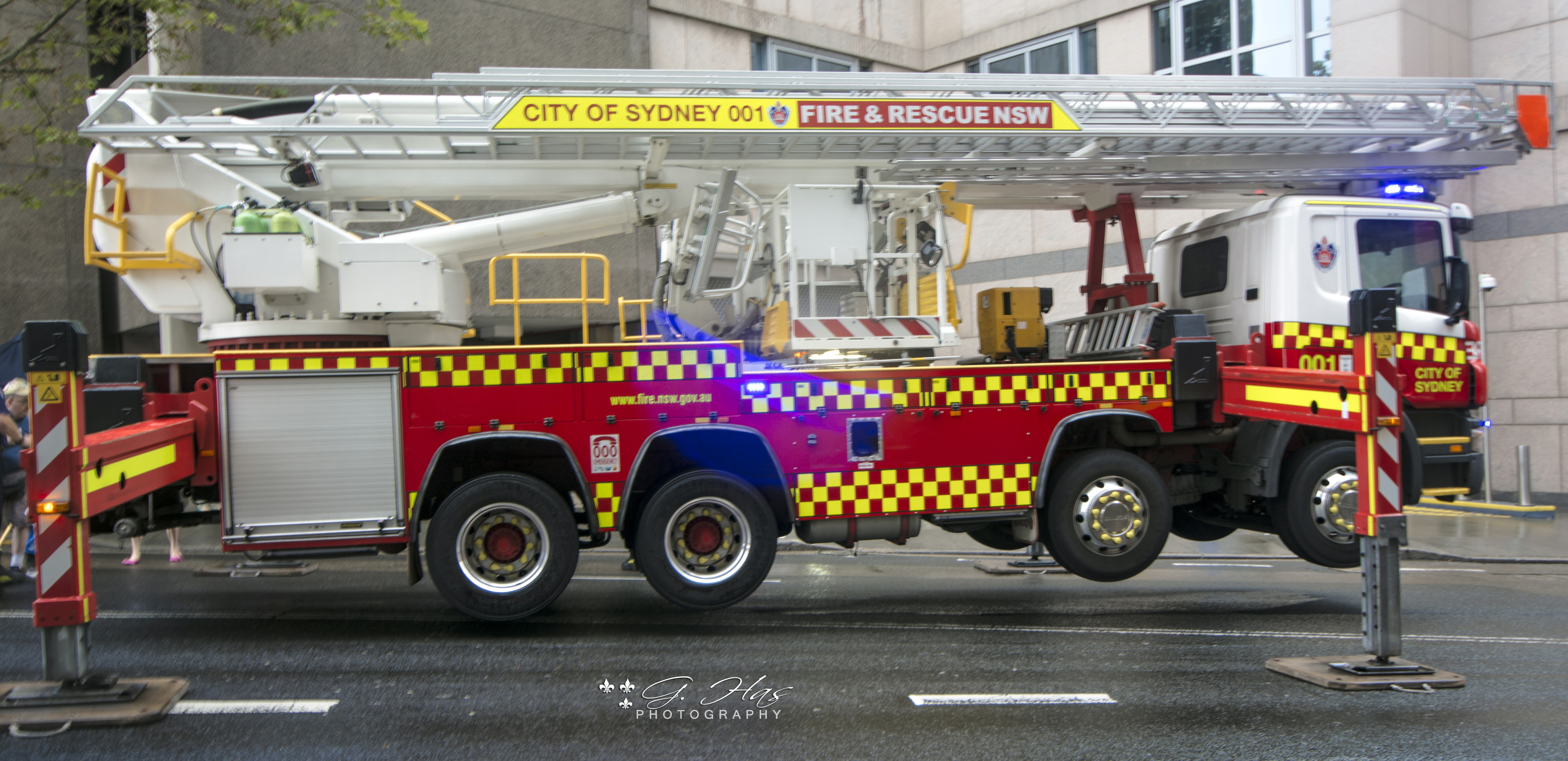 Fire and Rescue NSW - CARnivale 2015 Sydney